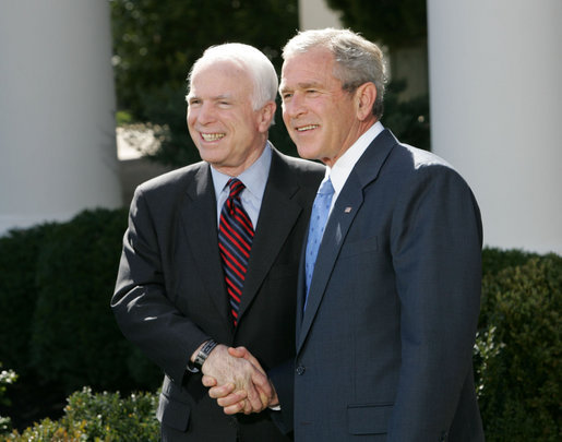 Republican presidential nominee Senator John McCain with President George W. Bush at the White House, Wednesday, March 5, 2008.